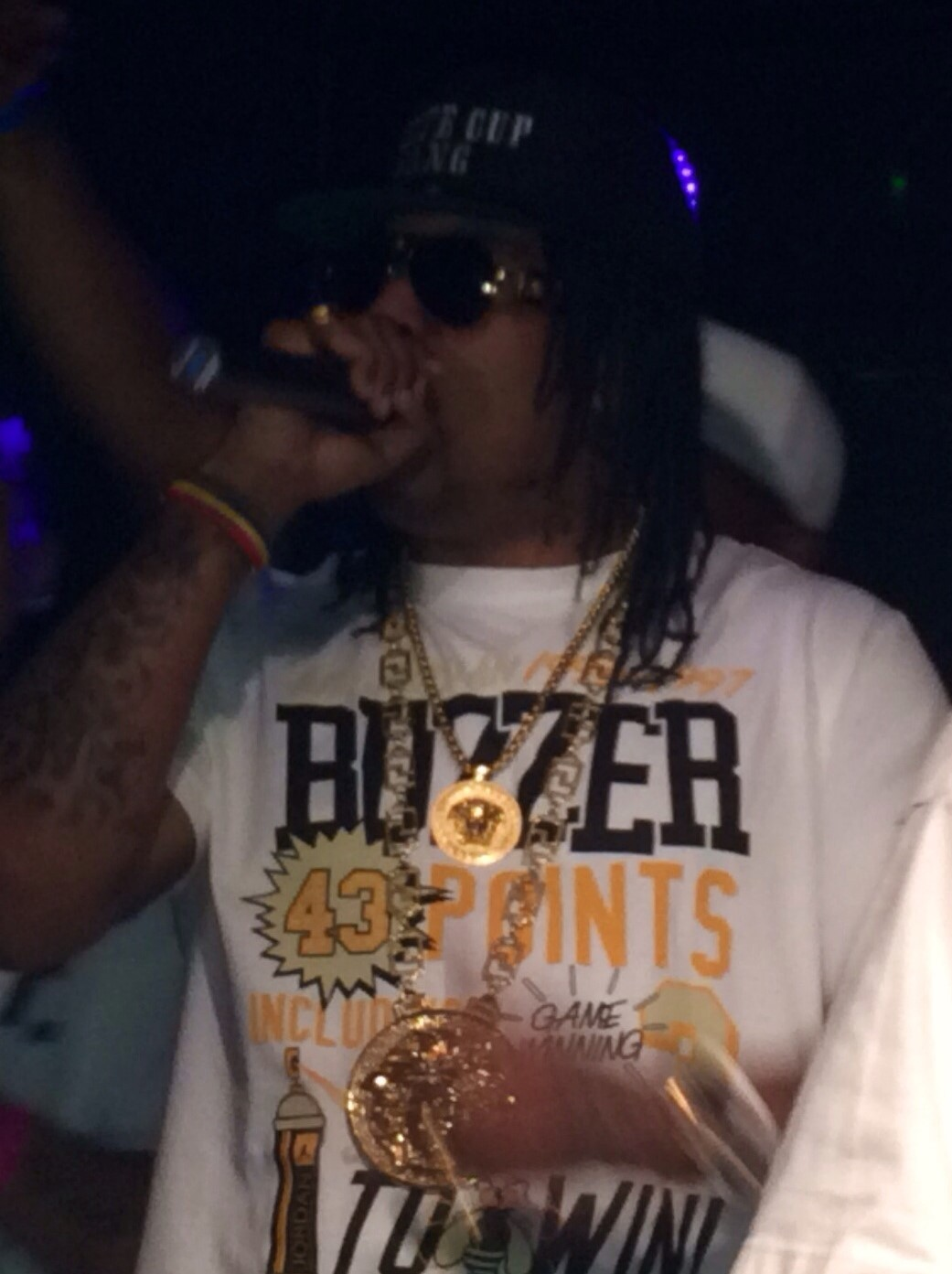 Lil Flip performing in 2014